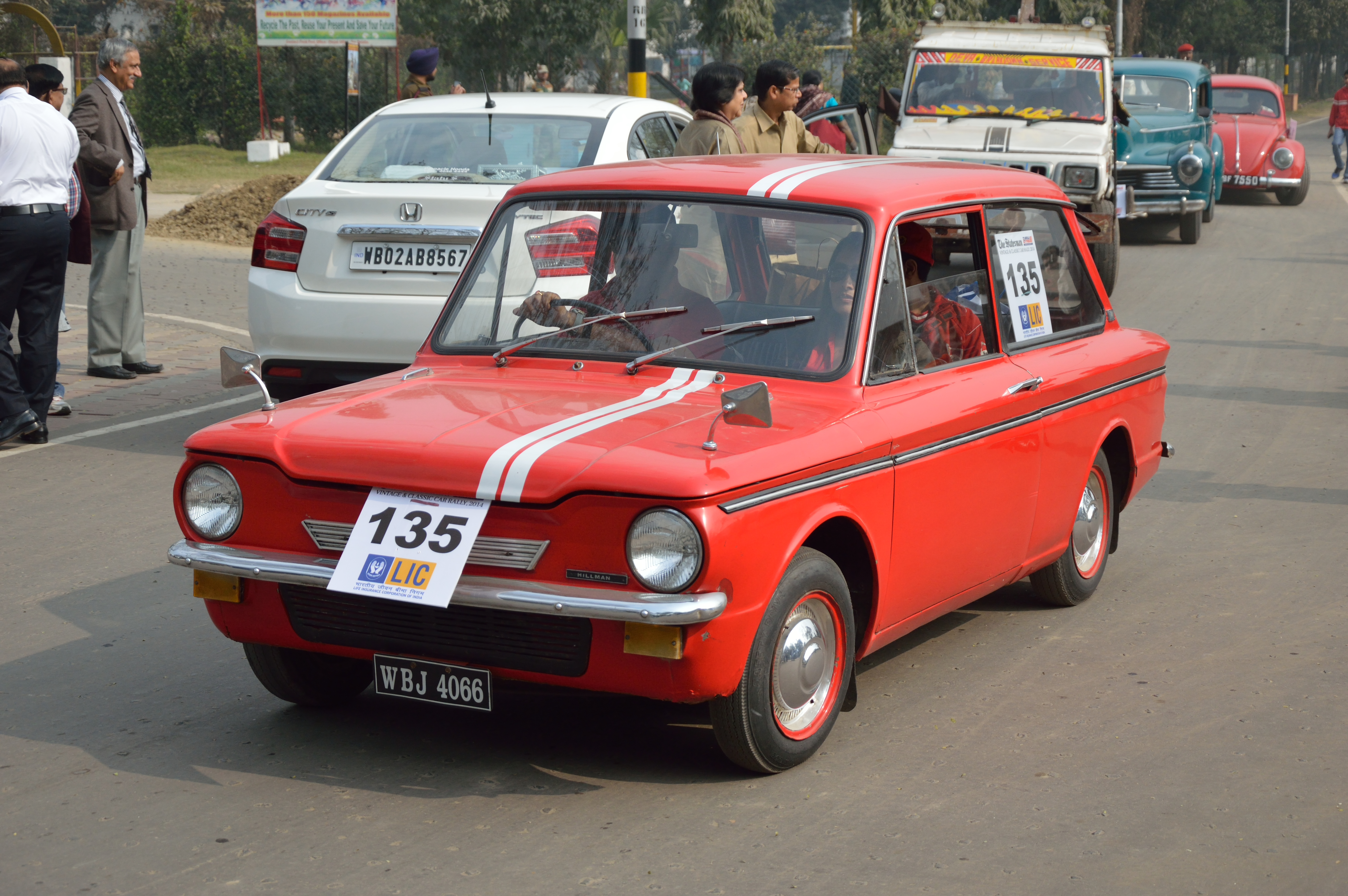 This classic car was exhibited and took part during ‘The Statesman Vintage & Classic Car Rally 2014’at the Eastern Command Sports Stadium of Fort William, Kolkata. The route was Strand road, Esplanade, Central avenue, Bhupen Bose avenue, Shaymbazaar five points crossing, APC Roy road, Moulali, CIT road, National Medical College, Park Circus seven points, Syed Amir Ali Avenue, Gariahat, Rashbehari Avenue, SP Mukherjee road, Hazra crossing, Ashutosh Mukherjee road, Exide crossing, AJC Bose road again Strand road and back to the ECS stadium. The rally was held at the morning on Sunday, 19 January 2013 at the ECS Stadium, where 175 entrants were registered with cars and bikes manufactured from 1906 to 1971. This one day festival usually takes place on the second Sunday of every January (but this time it is observed on third Sunday) in Kolkata since 1968 with full of period costume and cultural period pieces. This classic car is owned by P K Bose and driven by Prasun Hazra.